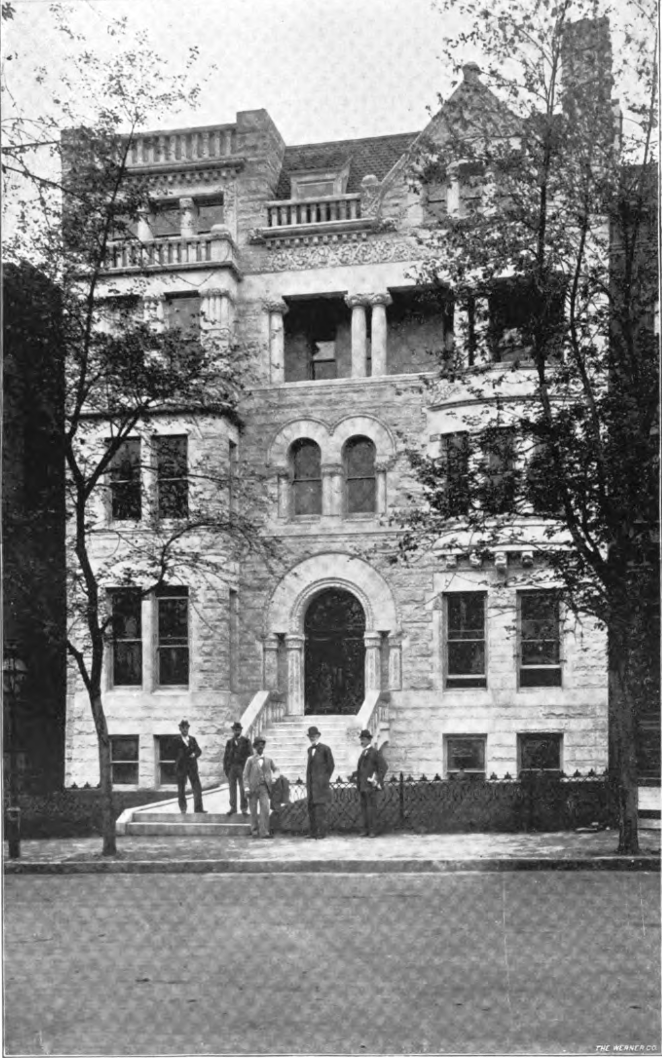 John Sherman's Washington D.C. home, 1323 K St. NW (since demolished)